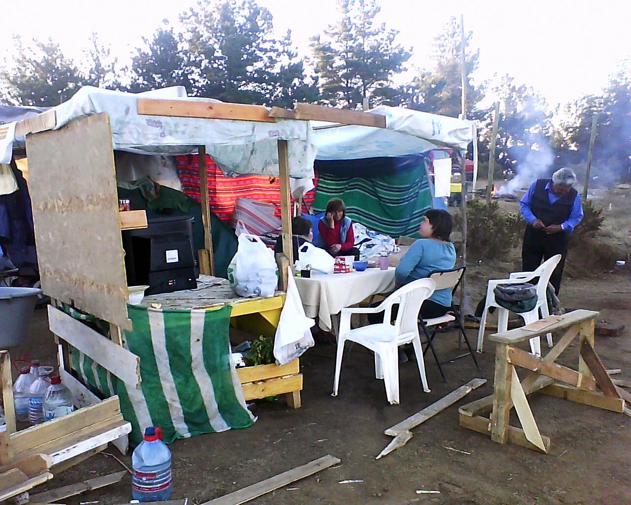 People camping at La Cruz Hill, after the 2010 Pichilemu earthquake, in the epicentre town.